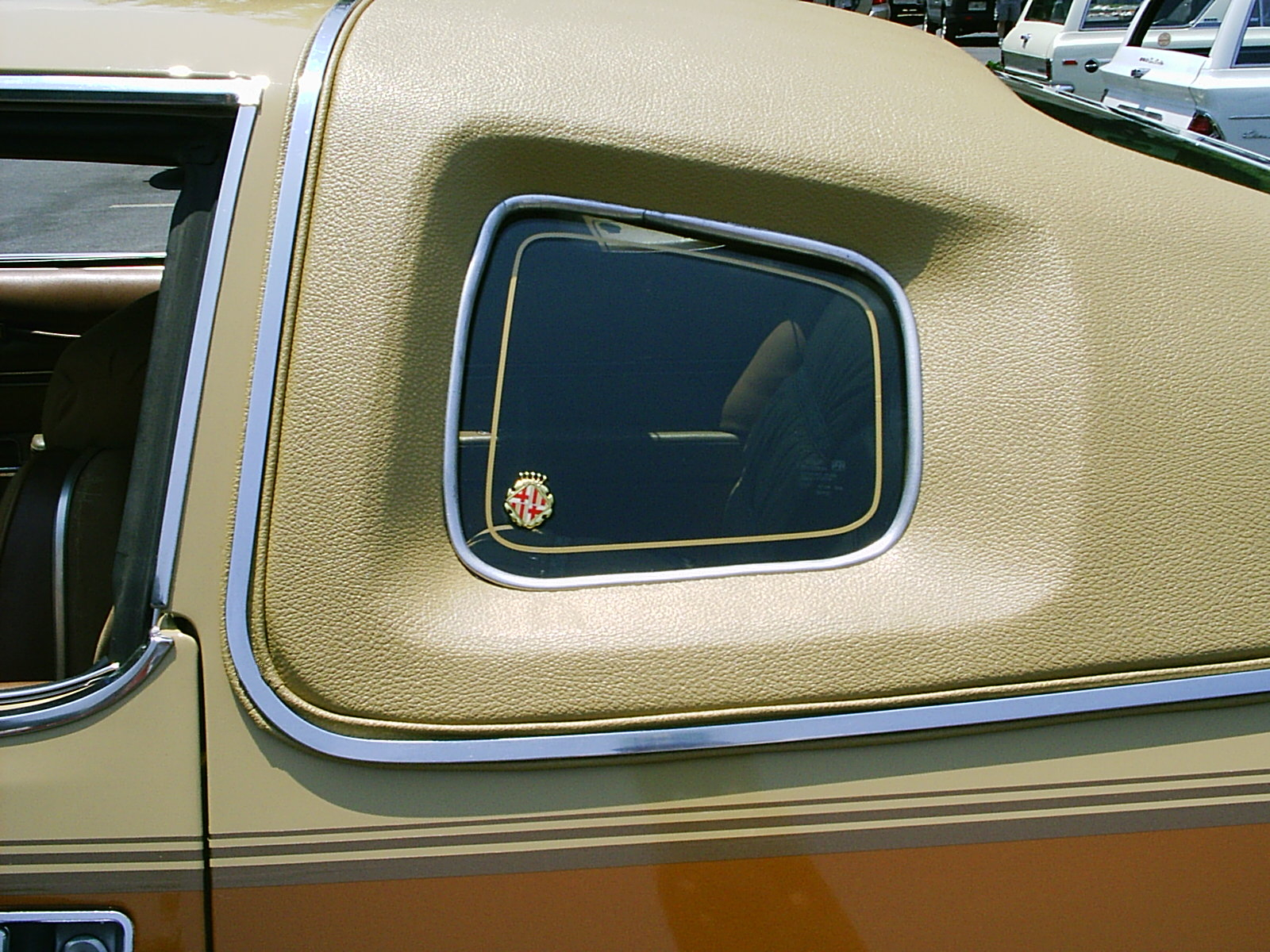 Close up of the "opera window" on a 1977 American Motors (AMC) Matador Coupe - Barcelona edition.